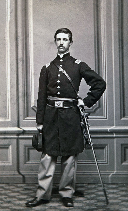 Luis F. Emilio as a newly commissioned 2nd Lieutenant in the 54th Massachusetts Volunteer Infantry, April 1863.